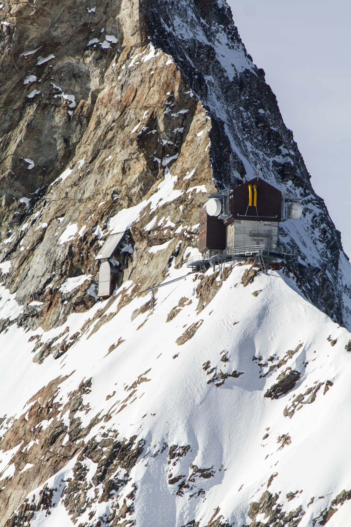 Jungfrau east ridge building November 2017